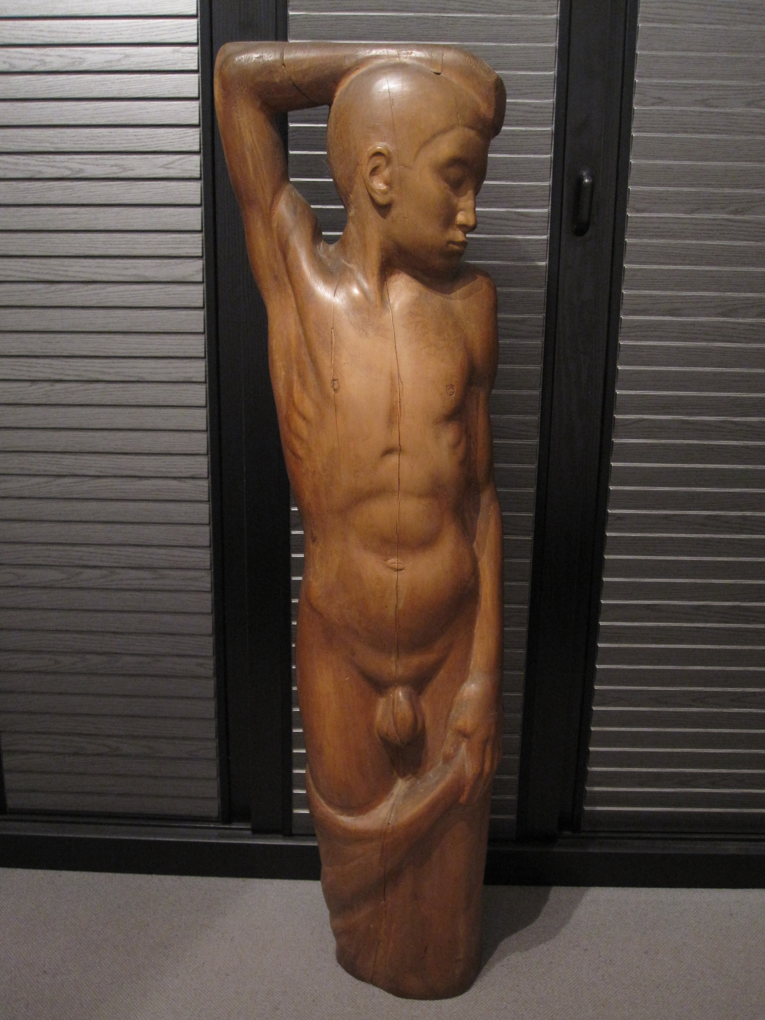 Sculpture of Ernst Gustav Jäger (German artist), 1923